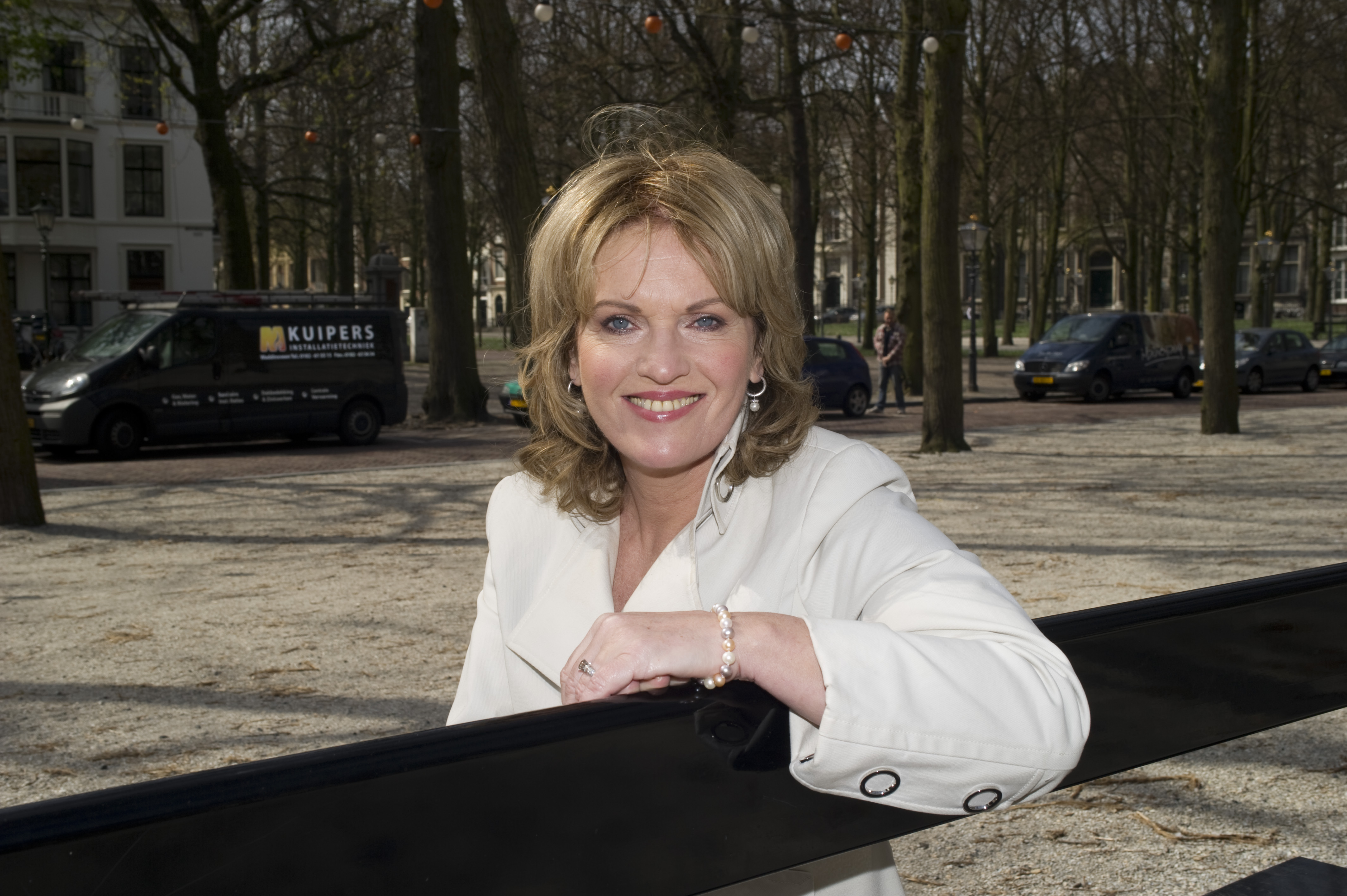 Picture from D66. Pia Dijkstra.